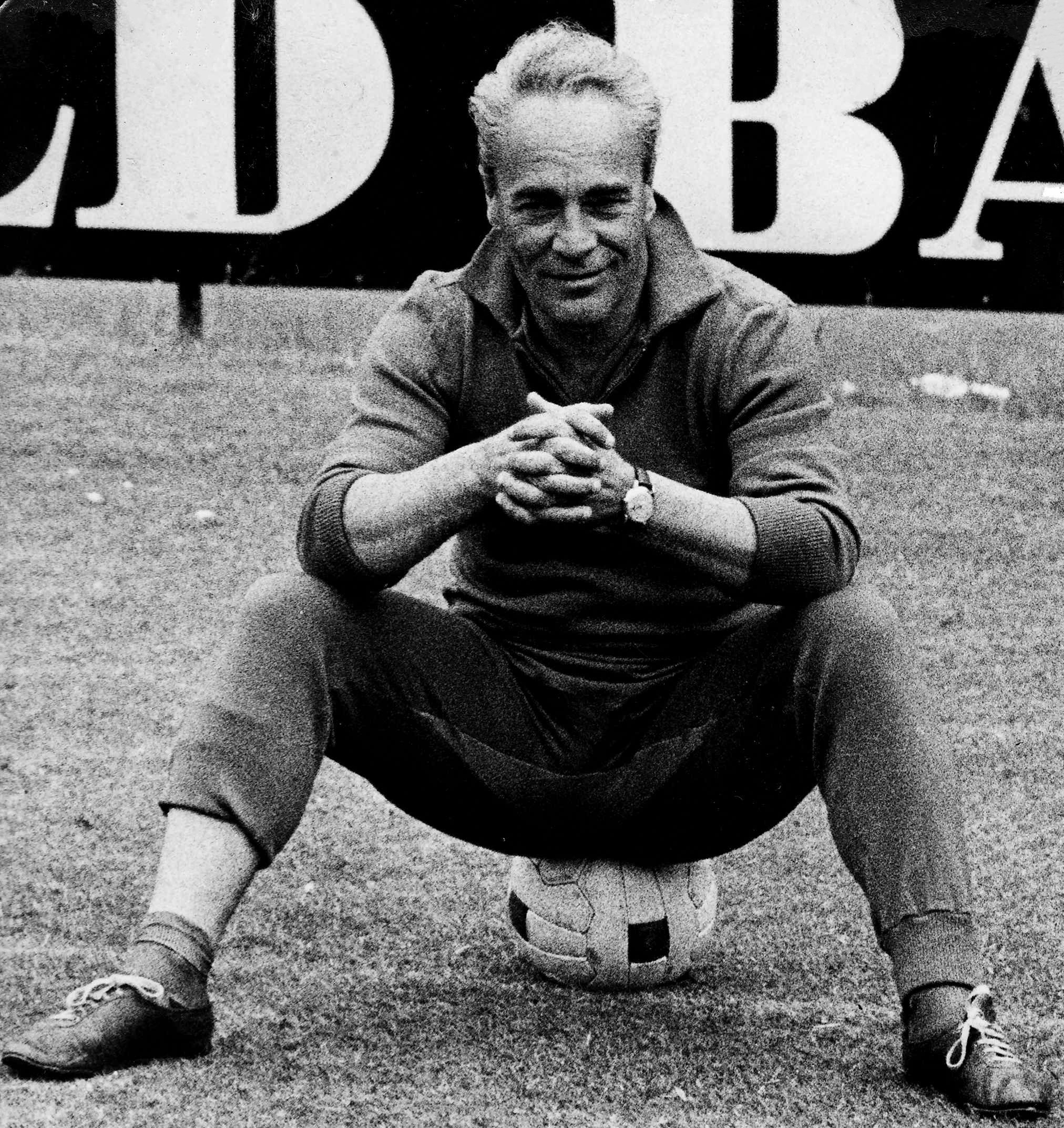 Silviu Ploesteanu